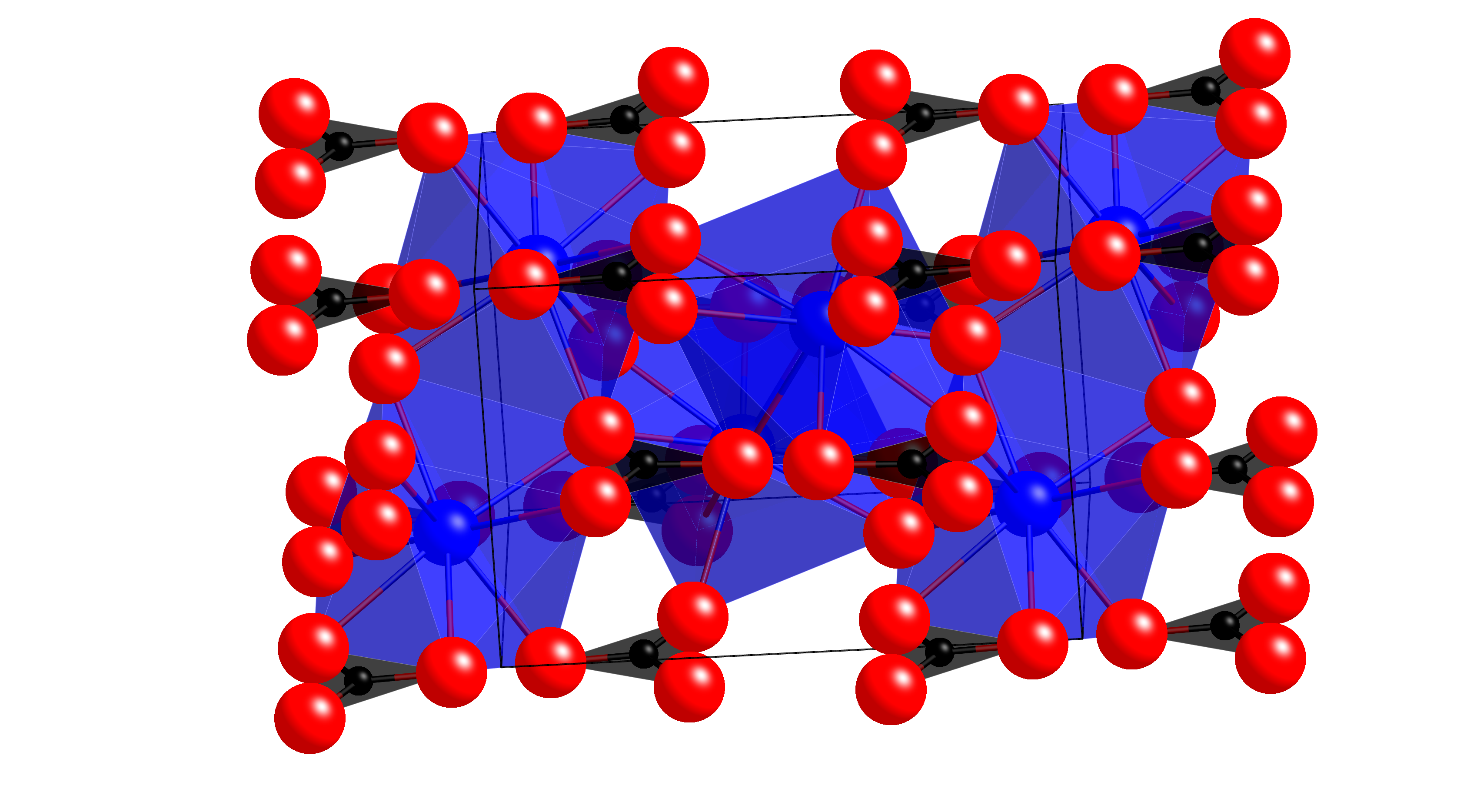 Aragonite crystal structure viewed down [-2,0,0.72]. Ca is blue, oxygen red, and C black. Carbonate groups are flat triangles.